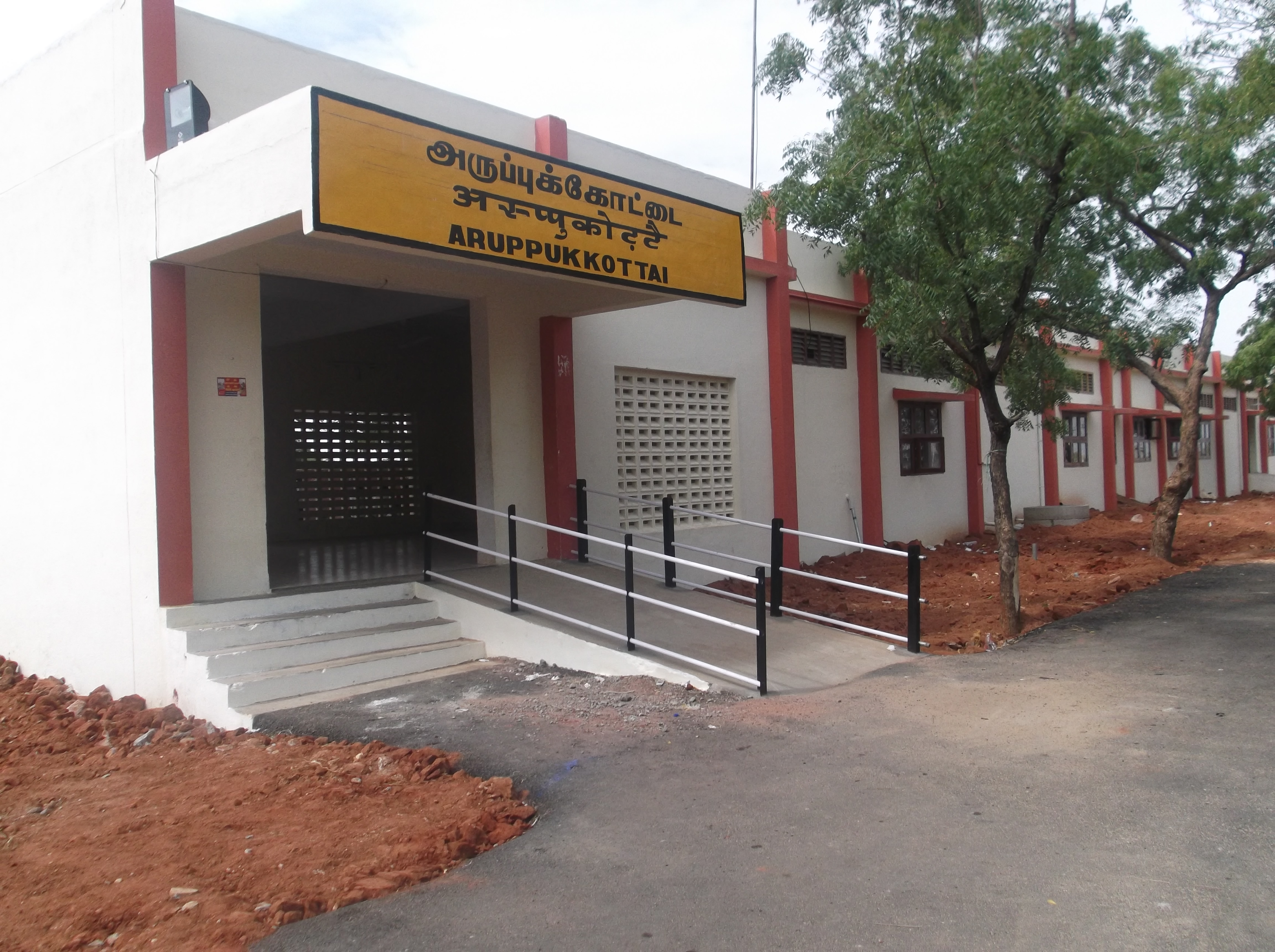 it is newly build aruppukottai railway station.i take picture on railway trial run at the station.